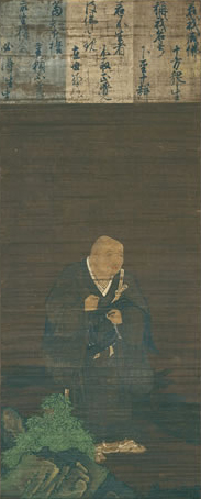 Two Patriarchs - Honen, Otani University Museum, Kyoto, Kyoto, Japan